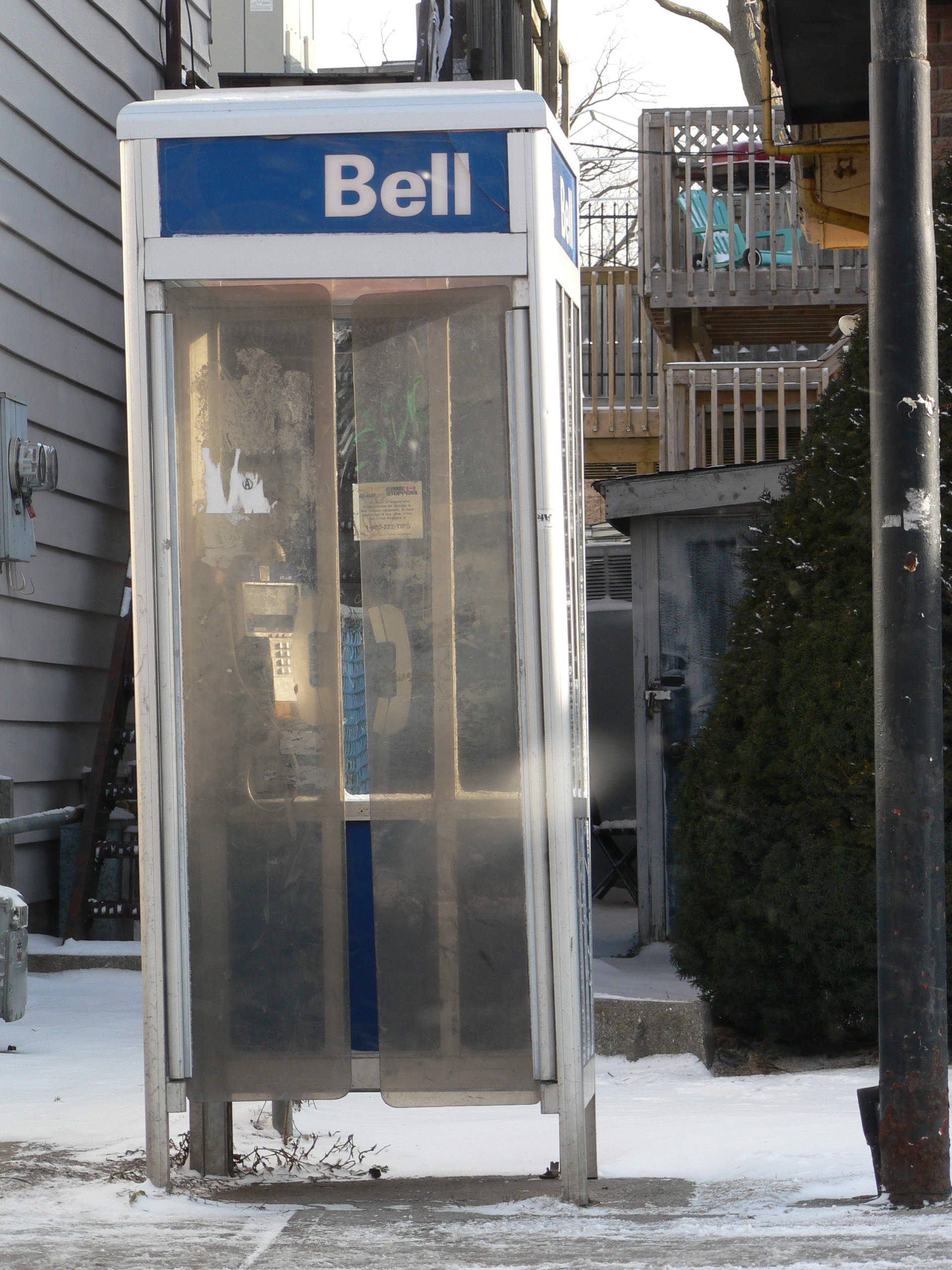 One of the last of the late great open air phone booths.